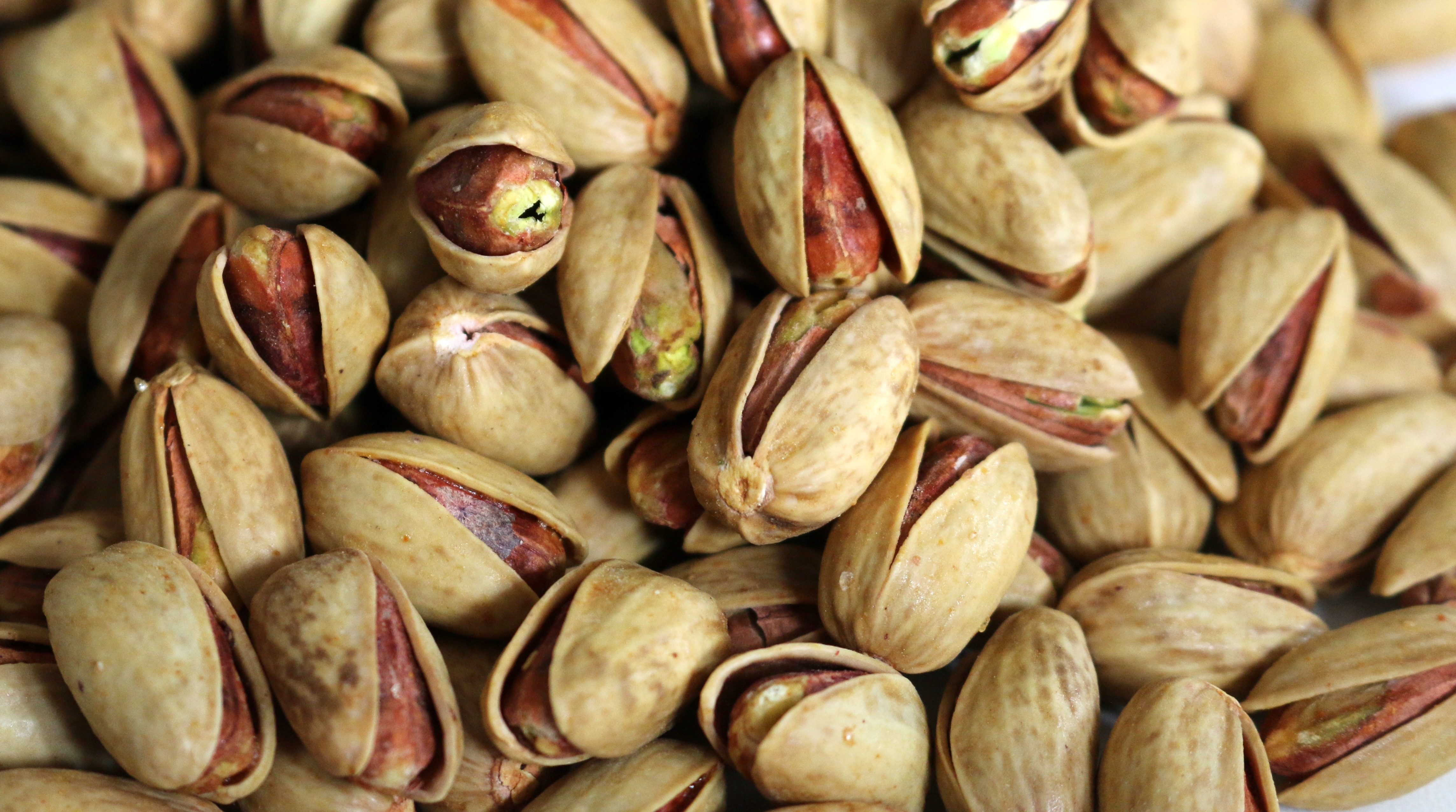 Persian Pistachio - Photo by Persian Dutch Network